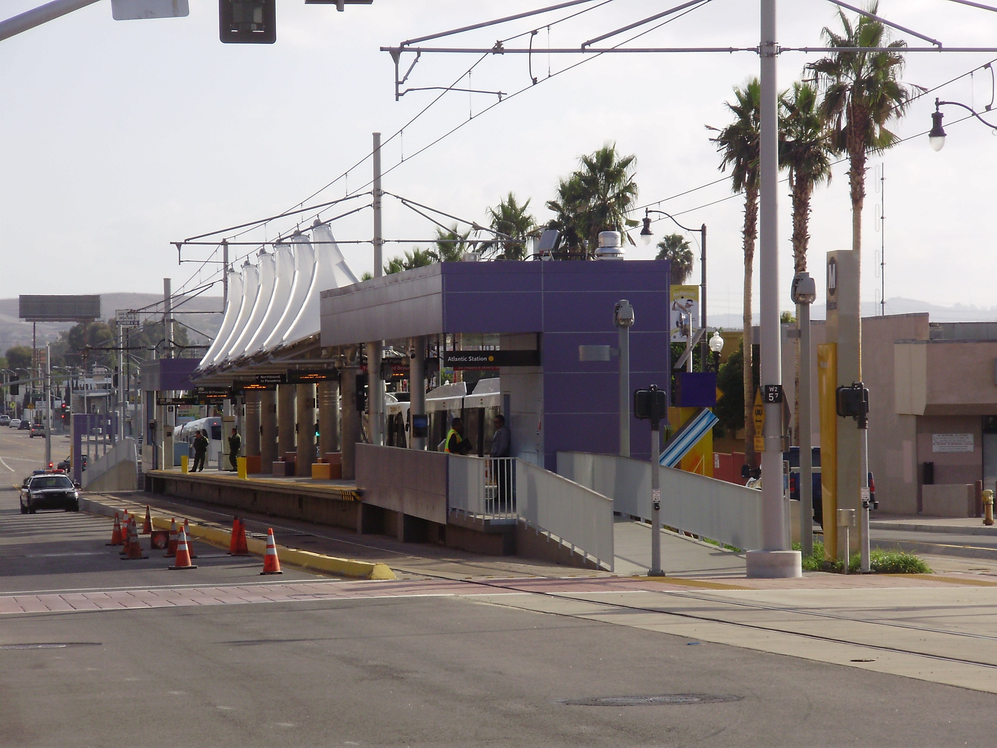 A train waits to depart for Pasadena at Atlantic station, southern terminus of the Los Angeles County Metropolitan Transportation Authority's Gold Line in East Los Angeles, California, USA.